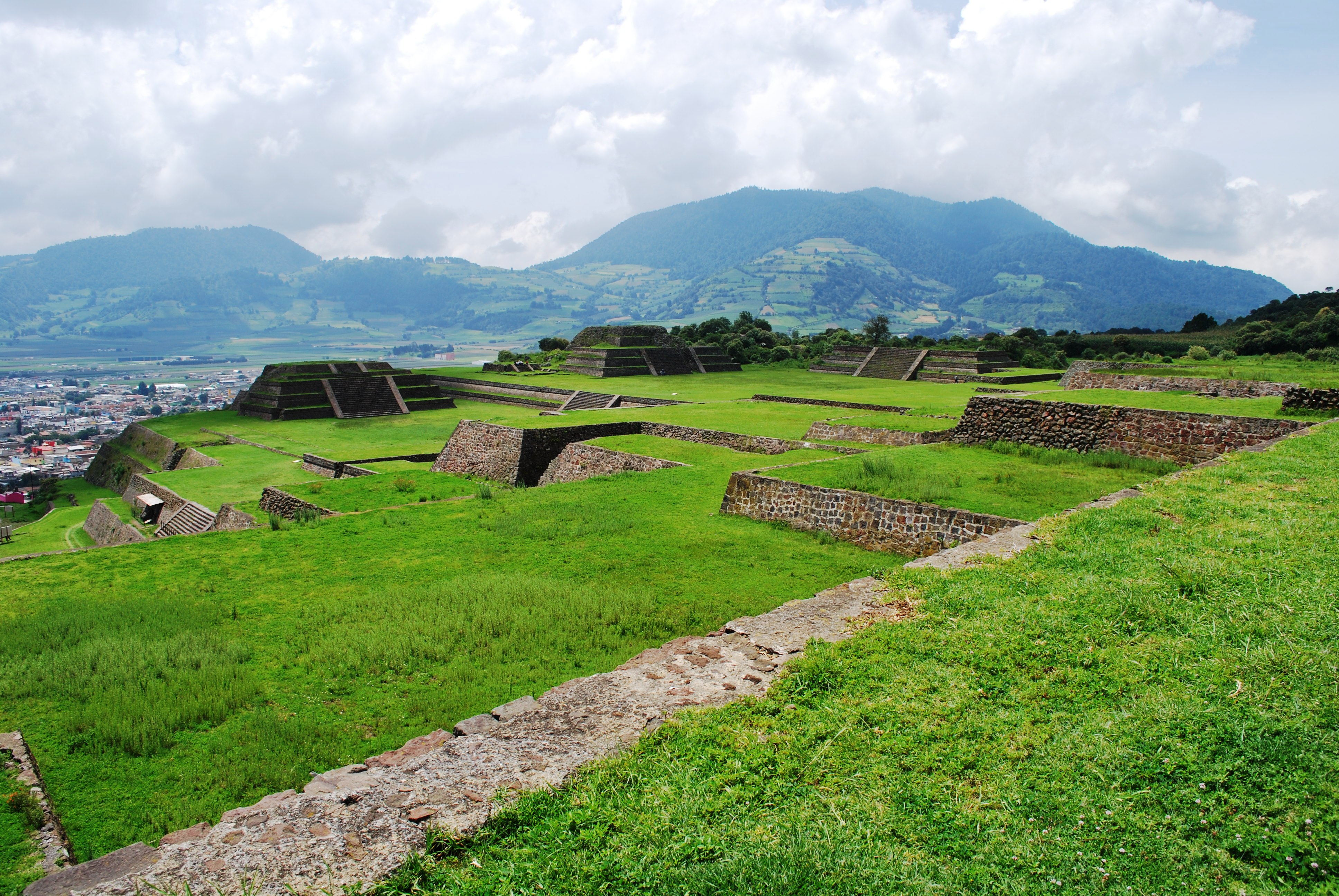 Looking east over Conjuntos A and B at Teotenango, Tenango del Valle, Mexico State